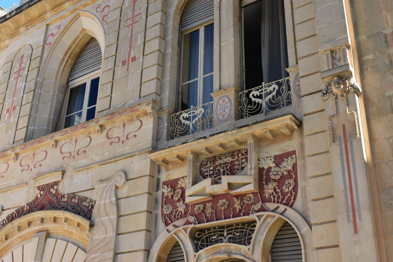 Rose Ville This media is about Maltese cultural property with inventory number 01151.